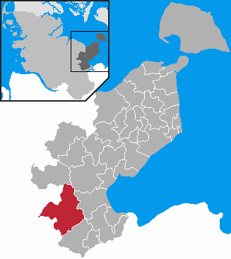 This map shows the area of the Gemeinde (municipality) Ahrensbök in the Kreis (district) Ostholstein, Schleswig-Holstein, Germany. Coordinates: N540100 E0103500